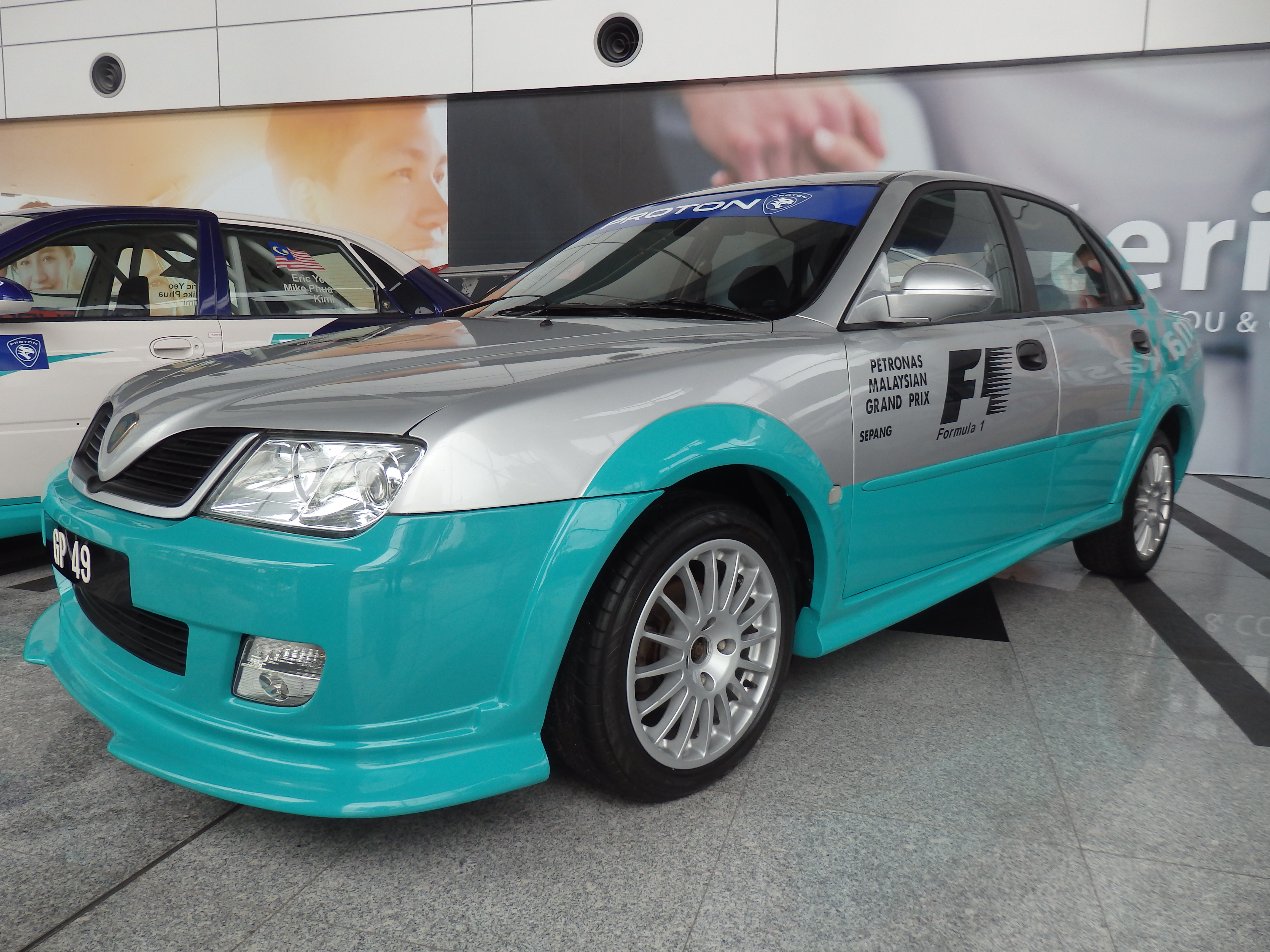 Front-side view. Taken at Proton's Centre of Excellence (Proton COE) on the 14th of March 2019.